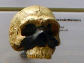 Taken at the David H. Koch Hall of Human Origins at the Smithsonian Natural History Museum.